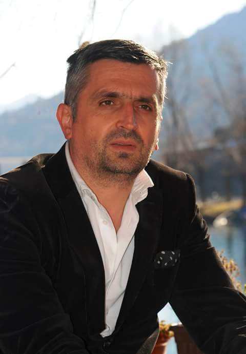 Boris Jovanovic Kastel, near Podgorica